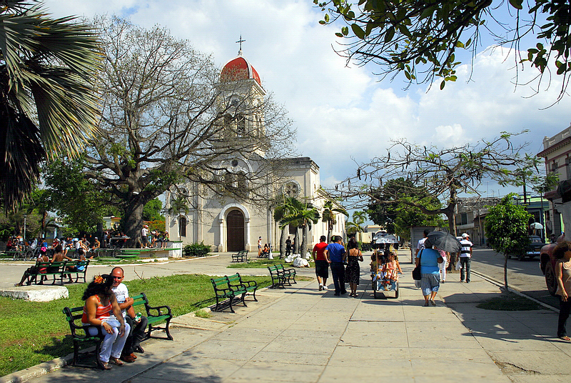 Güines main plaza with the church